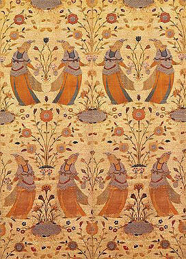 Riza Abbasi-style, early 17th c. brocade